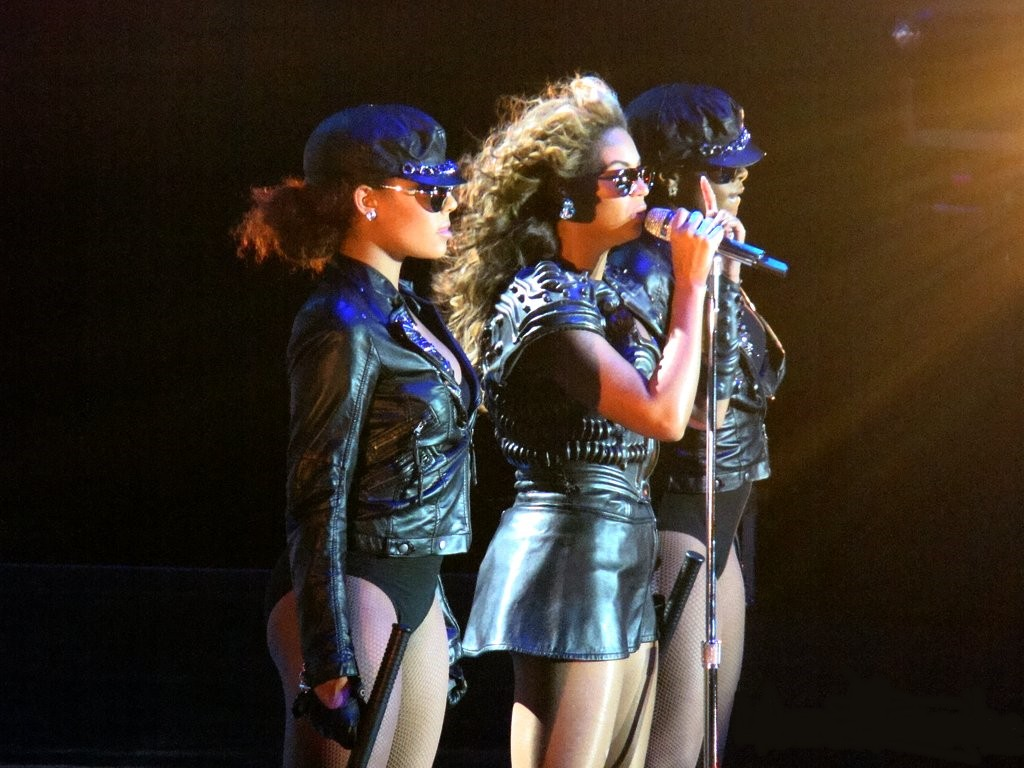 Beyoncé live in Rio de Janeiro in 2010.